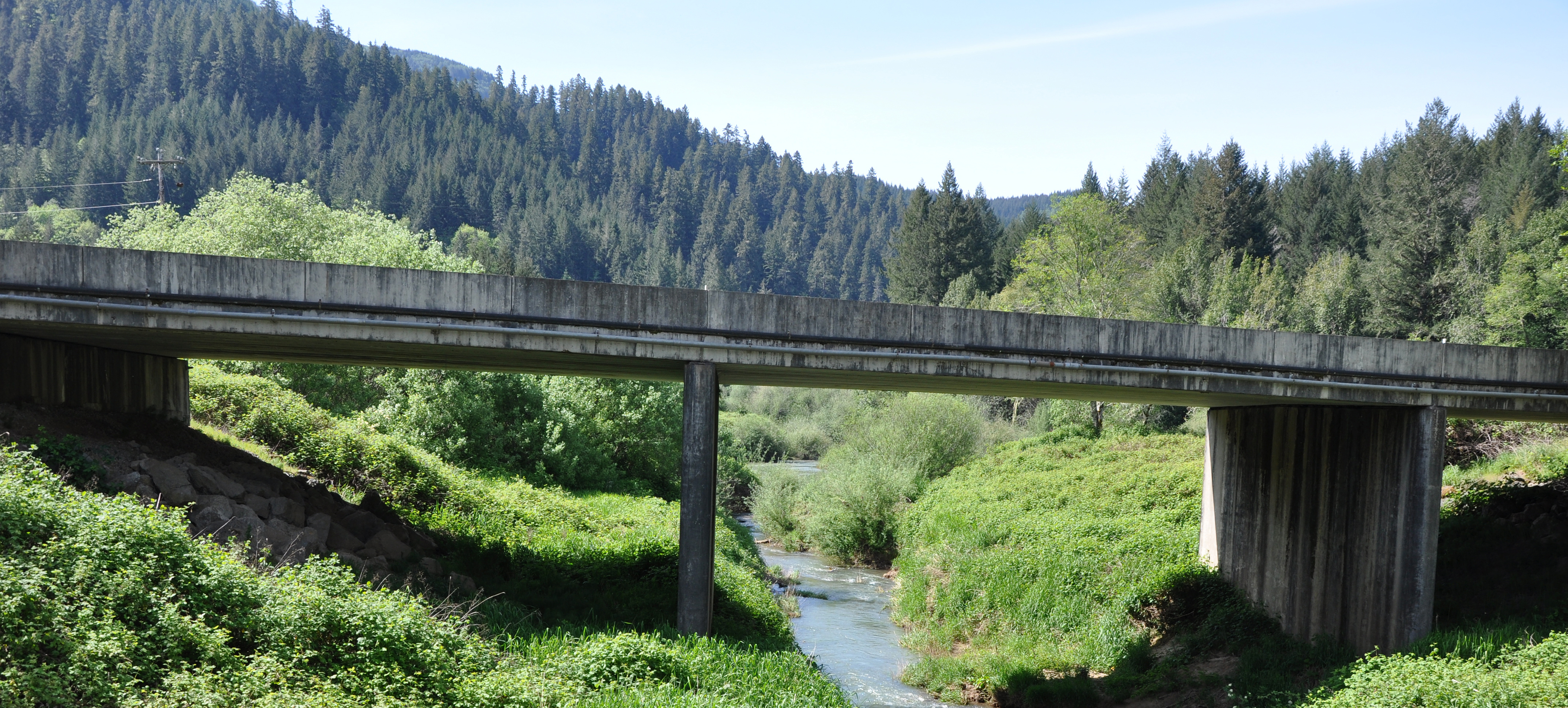 Sandy Creek, a tributary of the Middle Fork Coquille River in the U.S. state of Oregon. View is downstream from a roadside park containing the Sandy Creek Covered Bridge. The bridge in the photo carries Oregon Route 42, which formerly crossed the covered bridge.